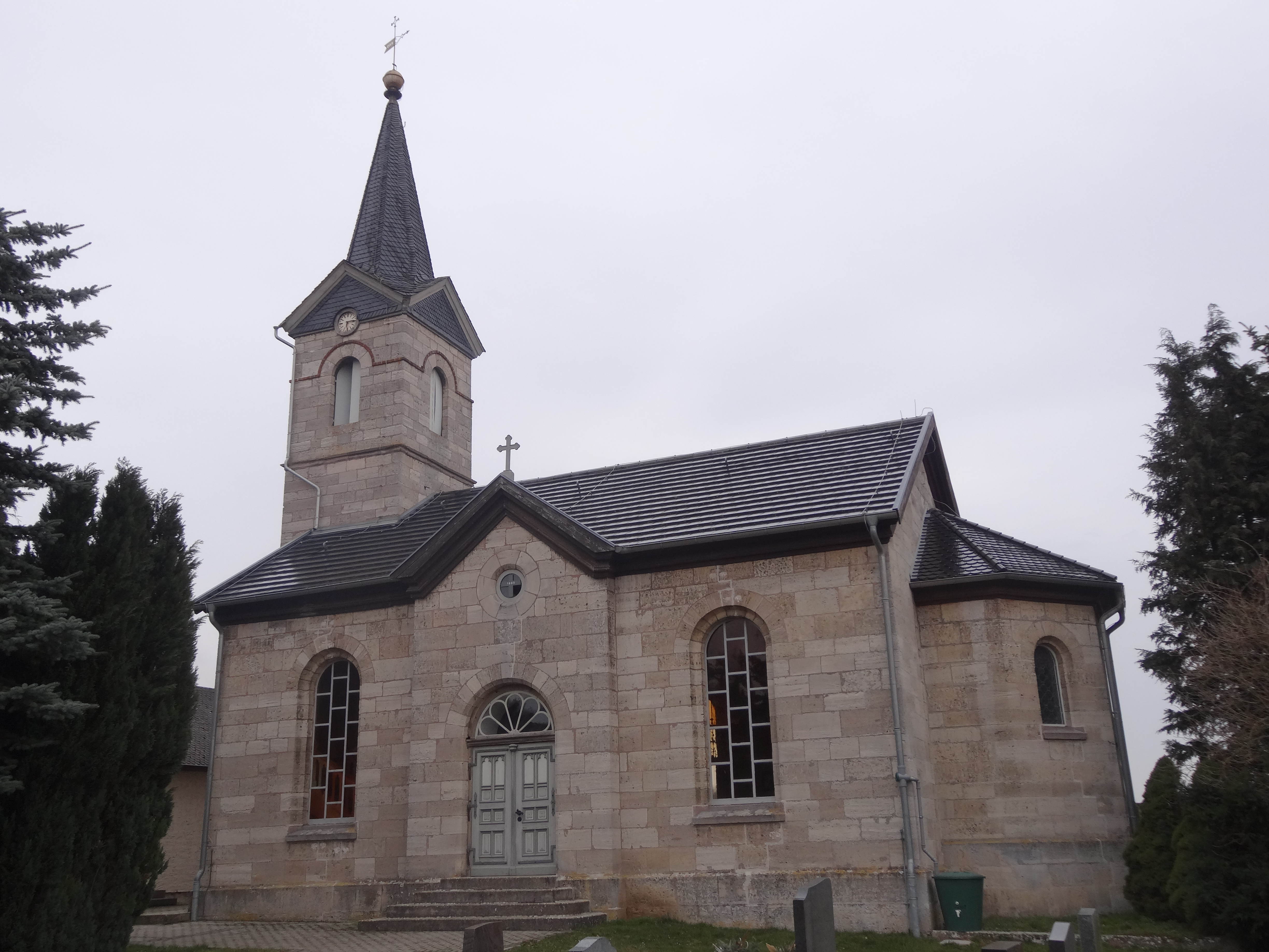 Churches in Kleinkeula, Thuringia, Germany